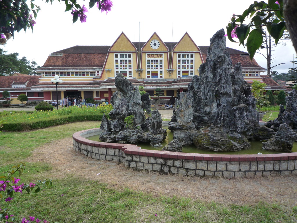 A rock garden in front of the train station, Da Lat, Vietnam.